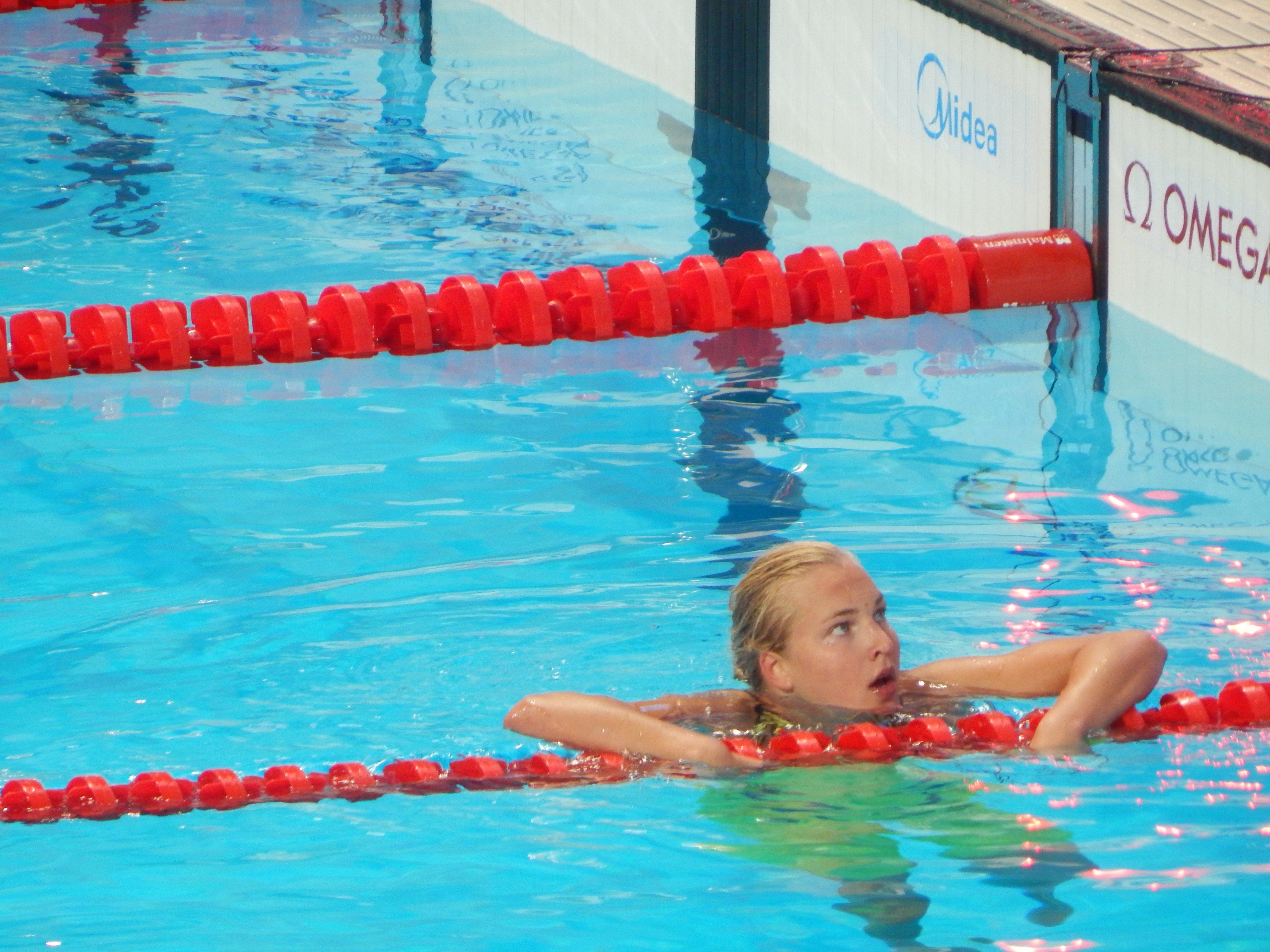 Rūta Meilutytė in women's semifinal 100m breaststroke